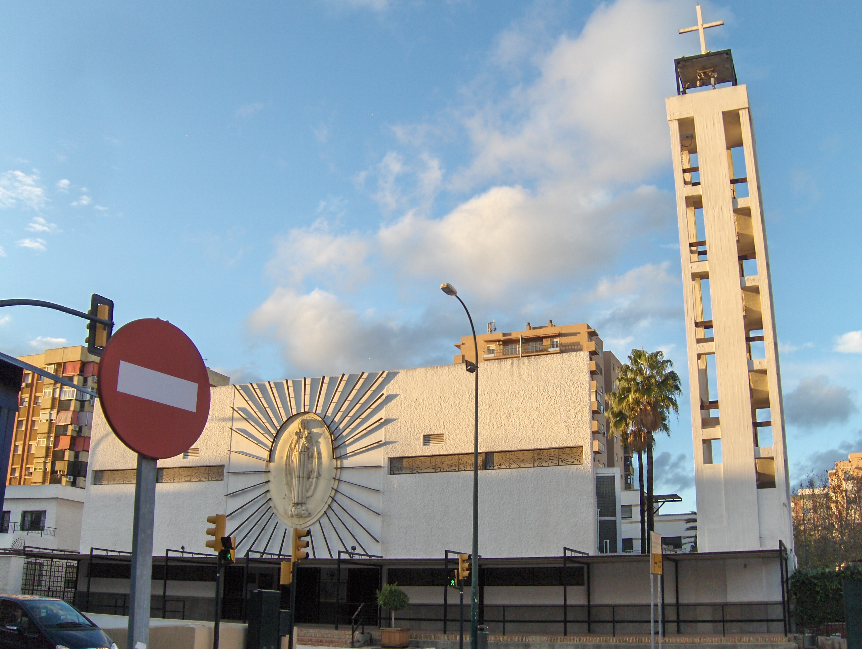 Asunciónn Church, Málaga. Architect: José María Santos Rein. Built in 1960.